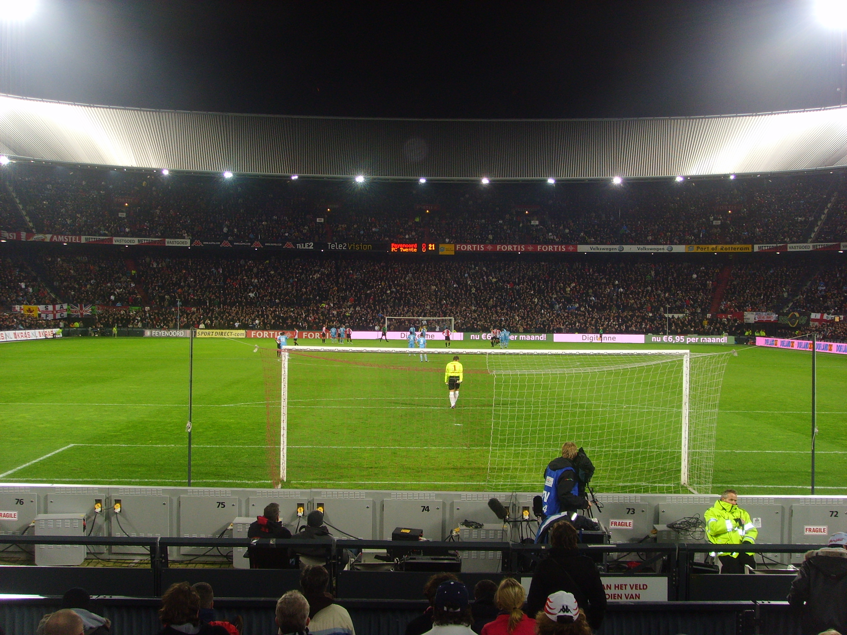 The Kuip at night during the Feyenoord - FC Twente match (3-1) on January 24th, 2008